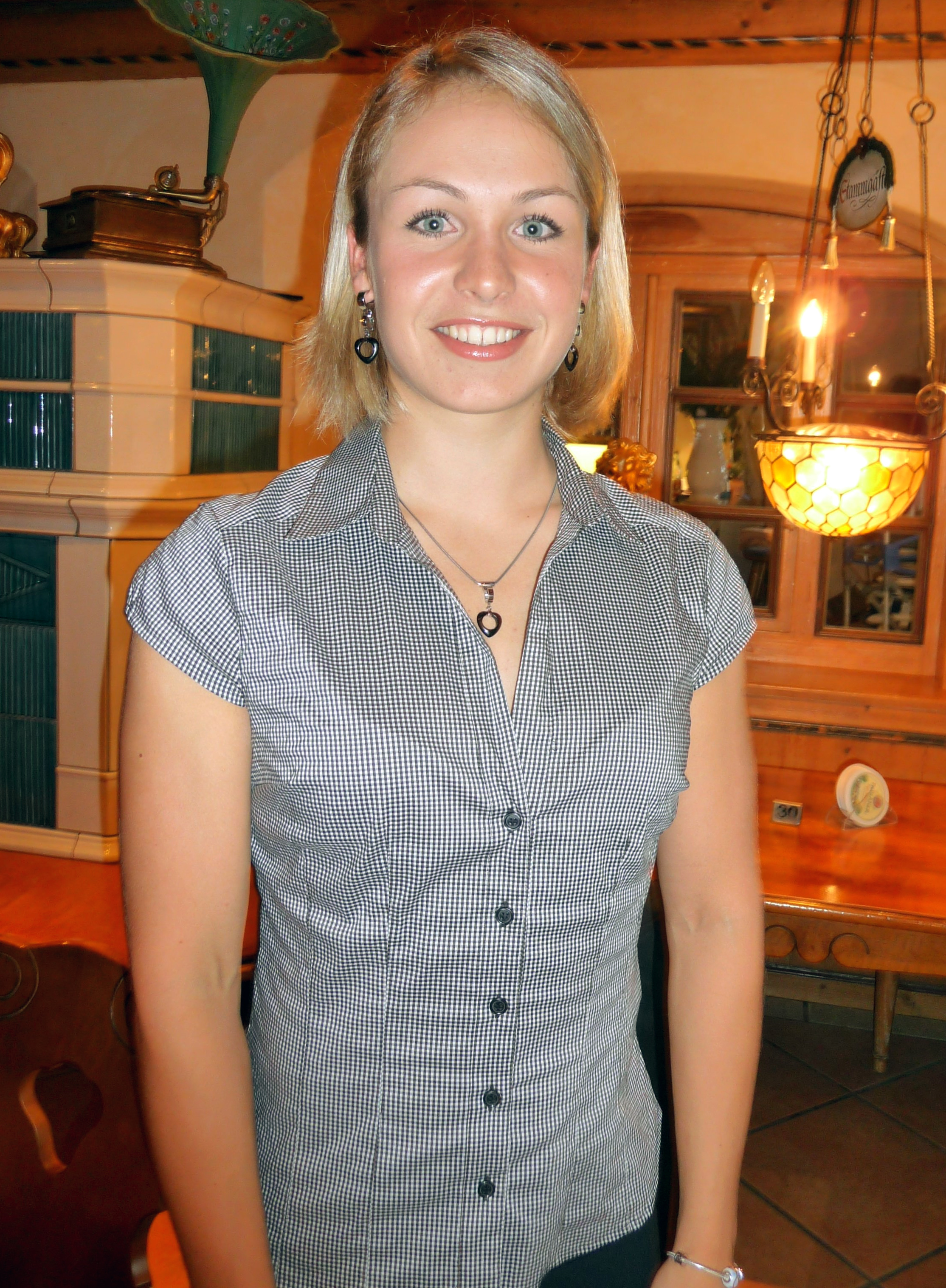 Magdalena Neuner at a festivity in Wallgau, Germany, May 16, 2009